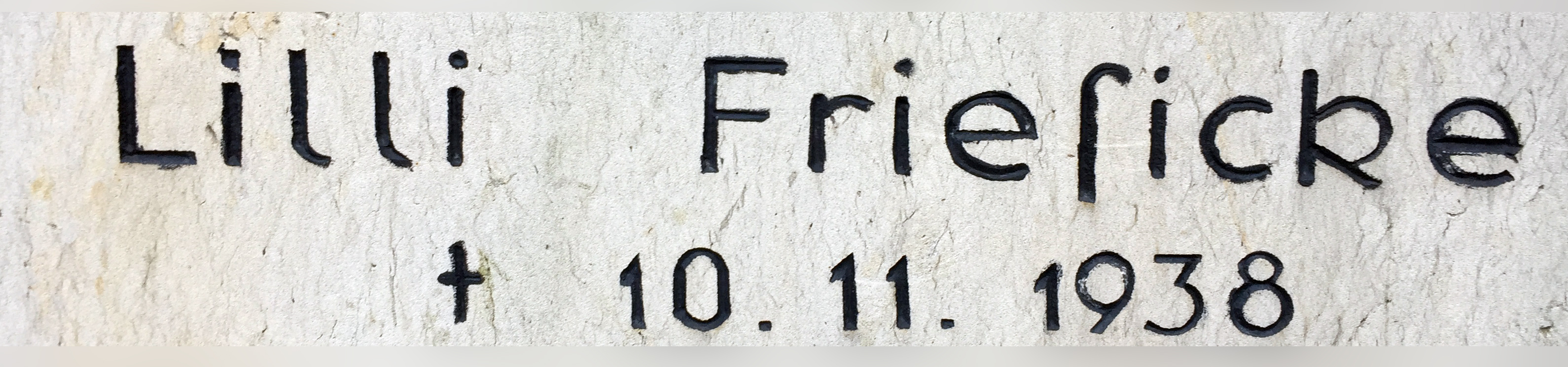 stony Inscription for Mrs Liili Friesicke MD with official date of death in Brandenburg an der Havel